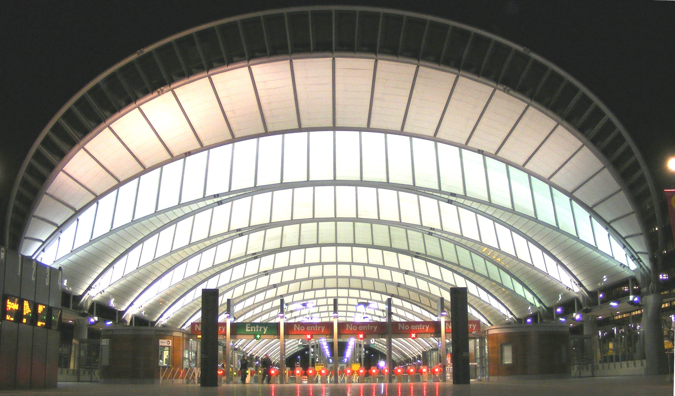 Sydney Olympic Park Railway Station